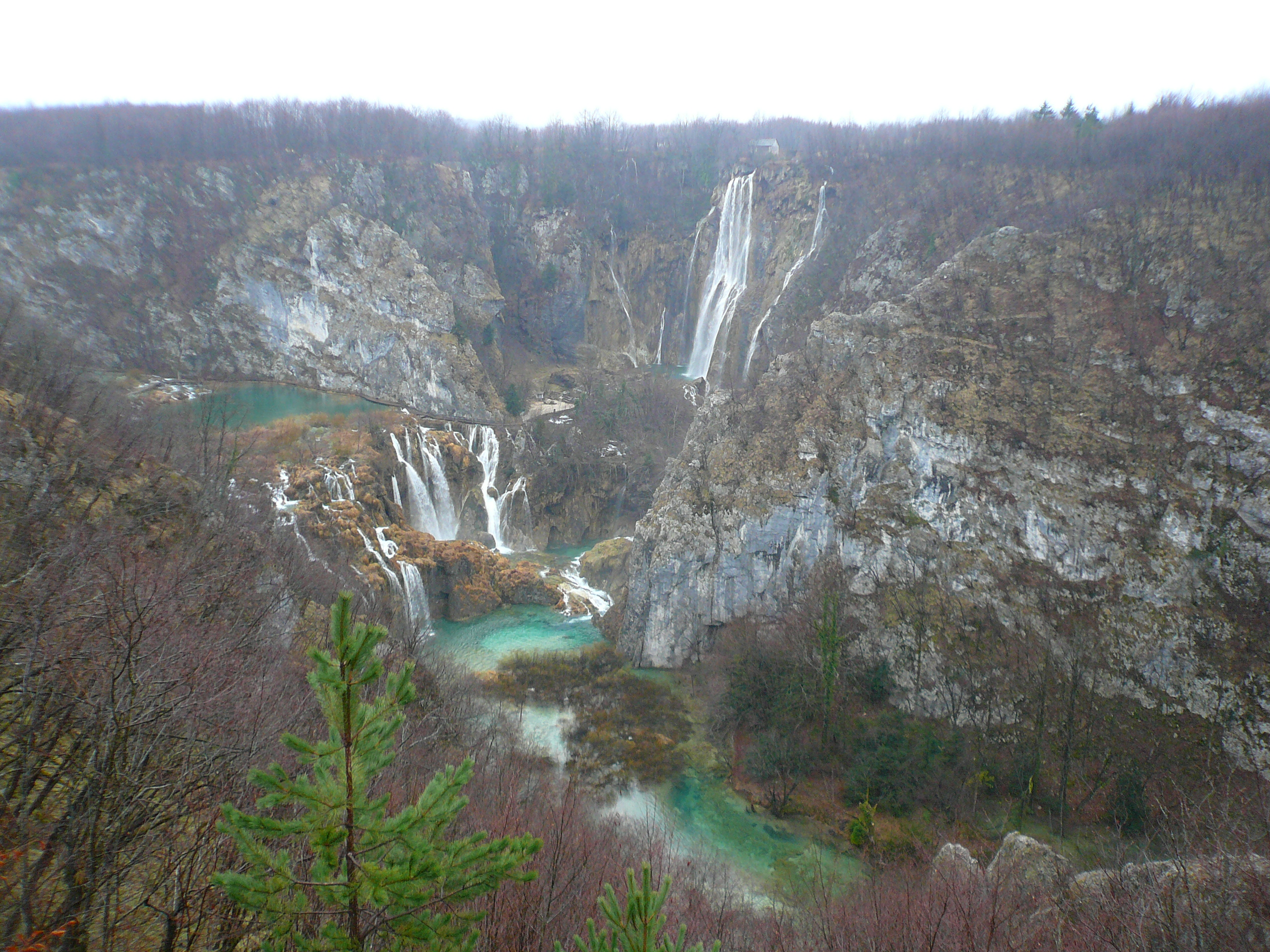 Trip to Croatia-Day 5-Zadar-National Park Plitvice Lakes